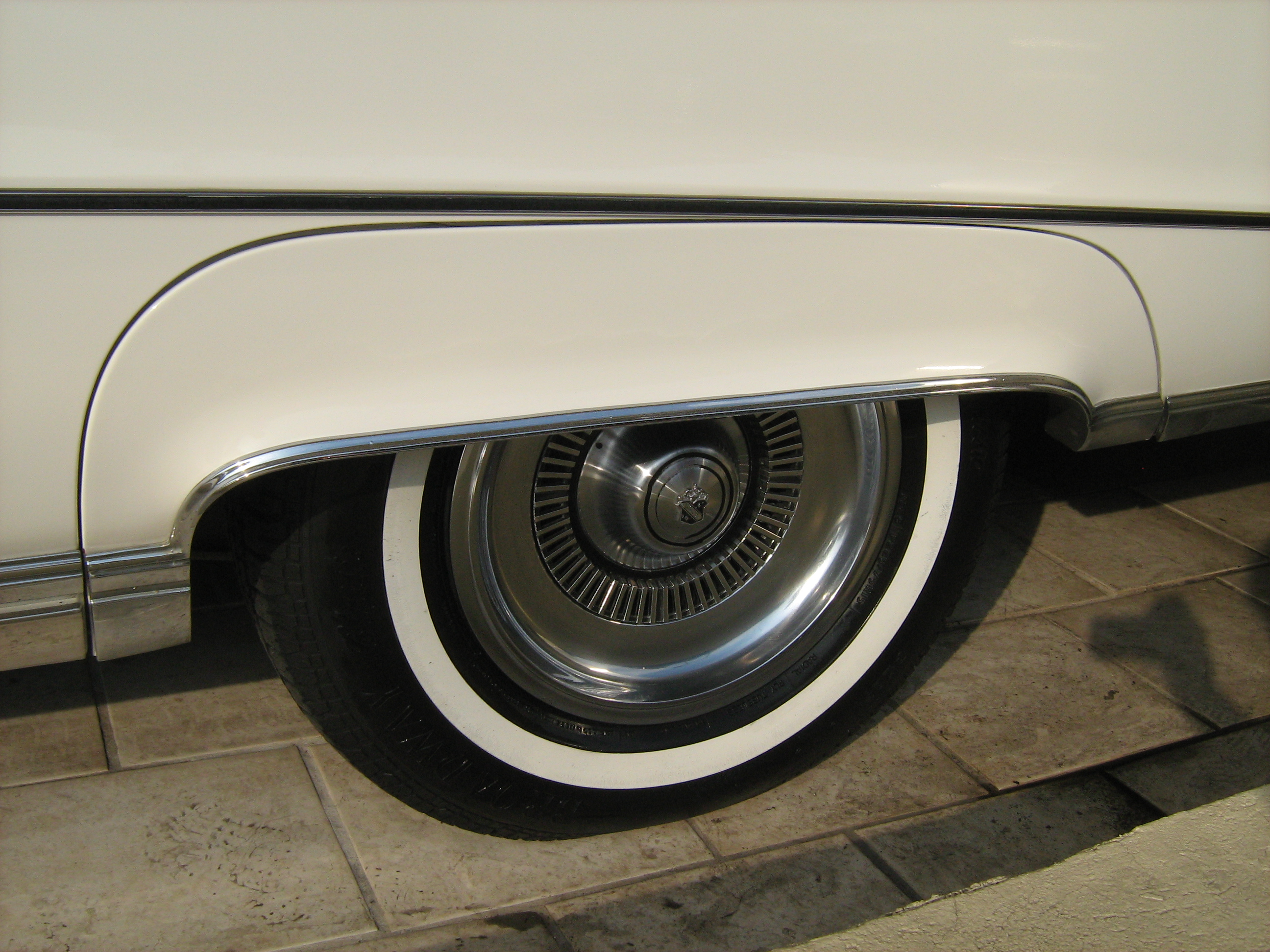 Fender skirt covering part of the rear wheels. Standard equipment on all 1969 Buick Electra 225 Custom models